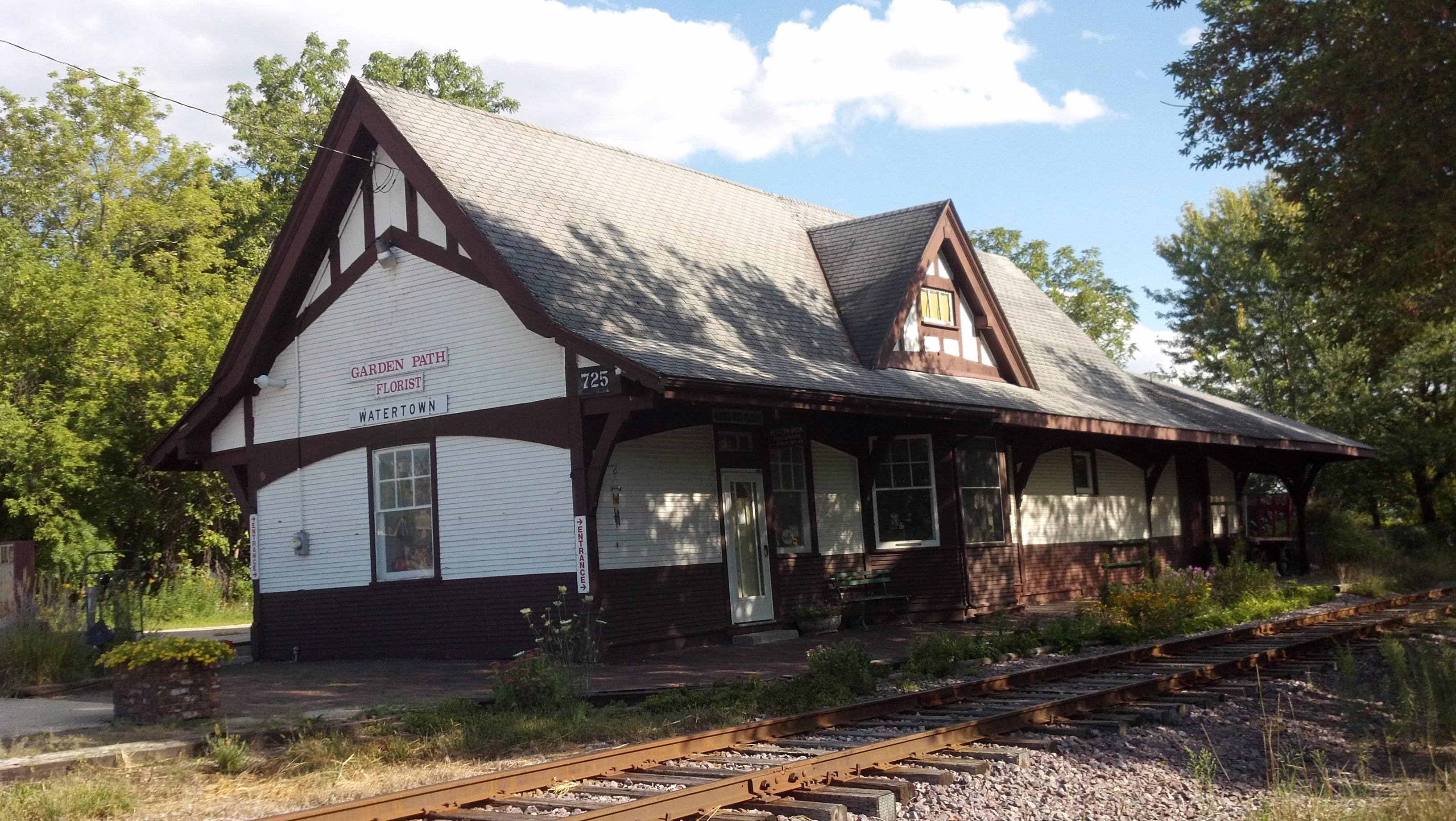 Chicago and Northwest Railroad Passenger Station